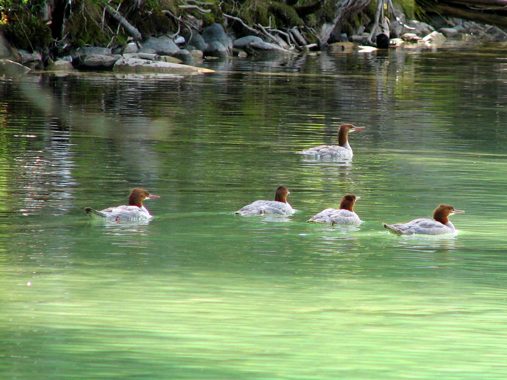 Common Merganser (Mergus merganser) female and four juveniles, Ladysmith, Quebec